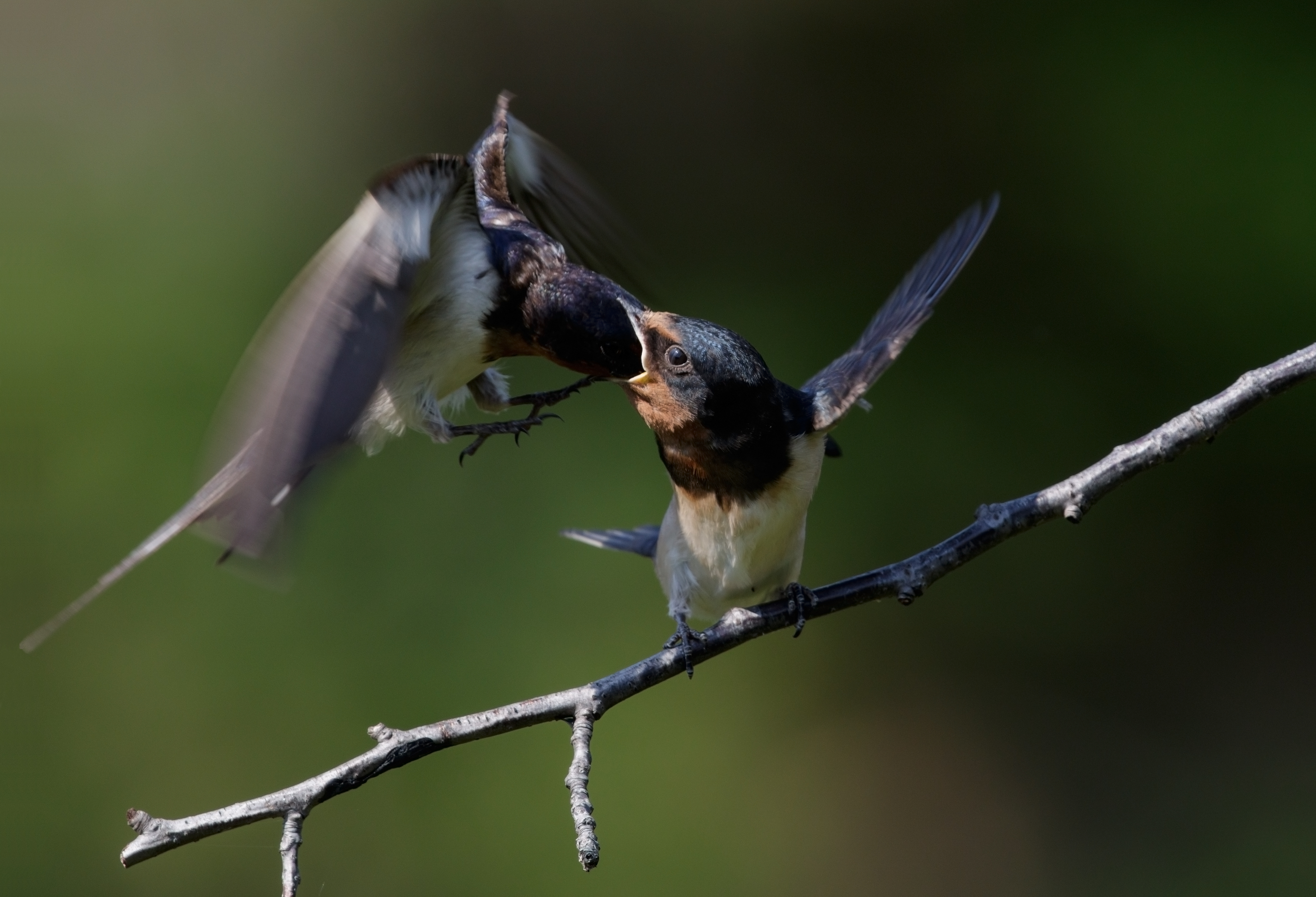 Barn swallow(feeding) at Tennōji Park in Osaka.